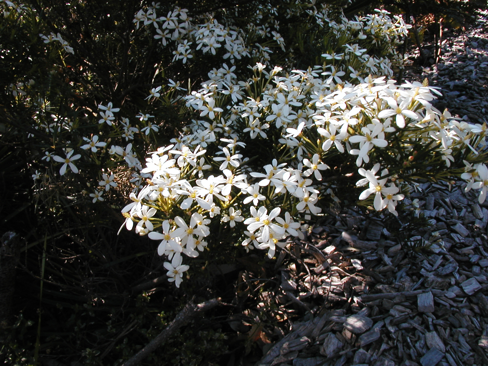 Ricinocarpos pinifolius in flower, Sydney (Henry Head walk)